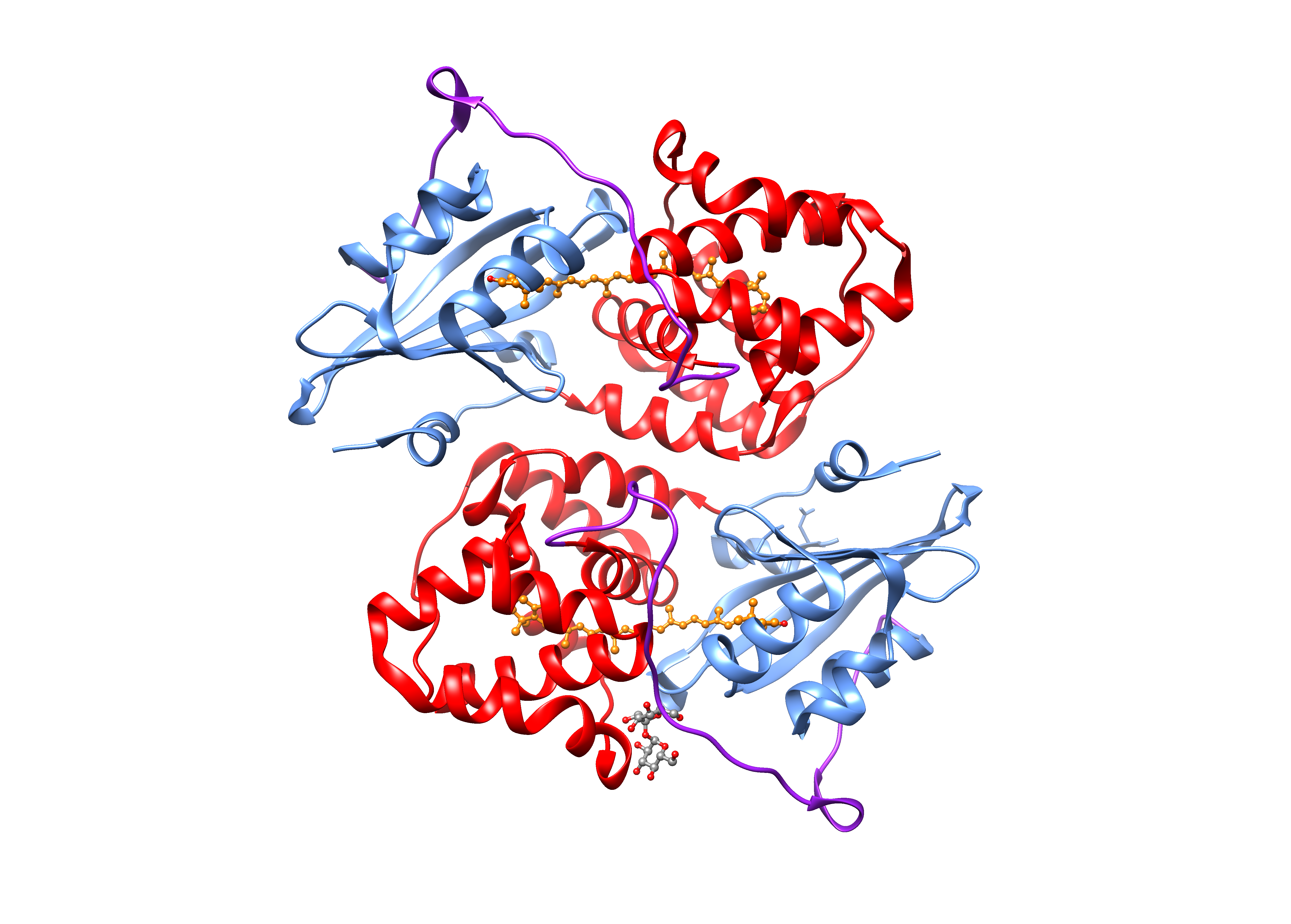 Ribbon view of the Orange Carotenoid Protein molecular structure (RCSB Protein Data Bank accession code 1M98). Key structural elements include the N-terminal domain (red), C-terminal domain (cyan), interdomain linker (purple), and the carotenoid chromophore (orange ball and sticks). The OCP crystallizes as a homodimer.